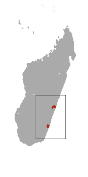 Jolly's Mouse Lemur (Microcebus jollyae) range IUCN: Microcebus jollyae Louis Jr., Coles, Andriantompohavana, Sommer, Engberg, Zaonarivelo, Mayor & Brenneman, 2006 (old web site) (Data Deficient)